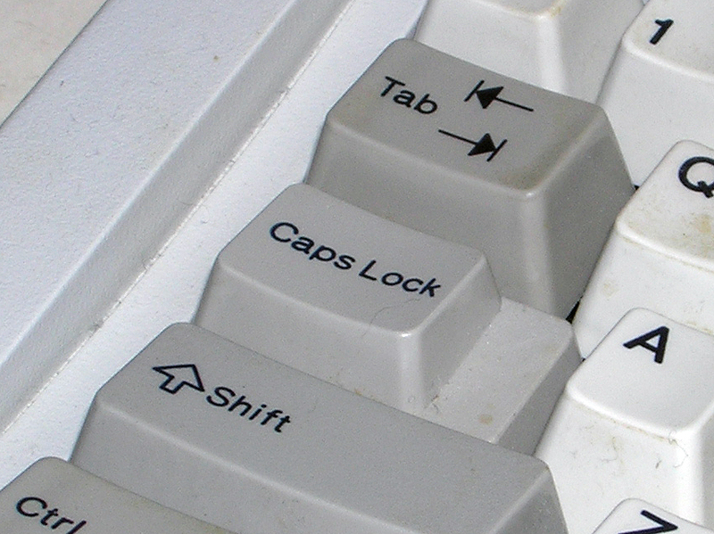 CapsLock key on Model M